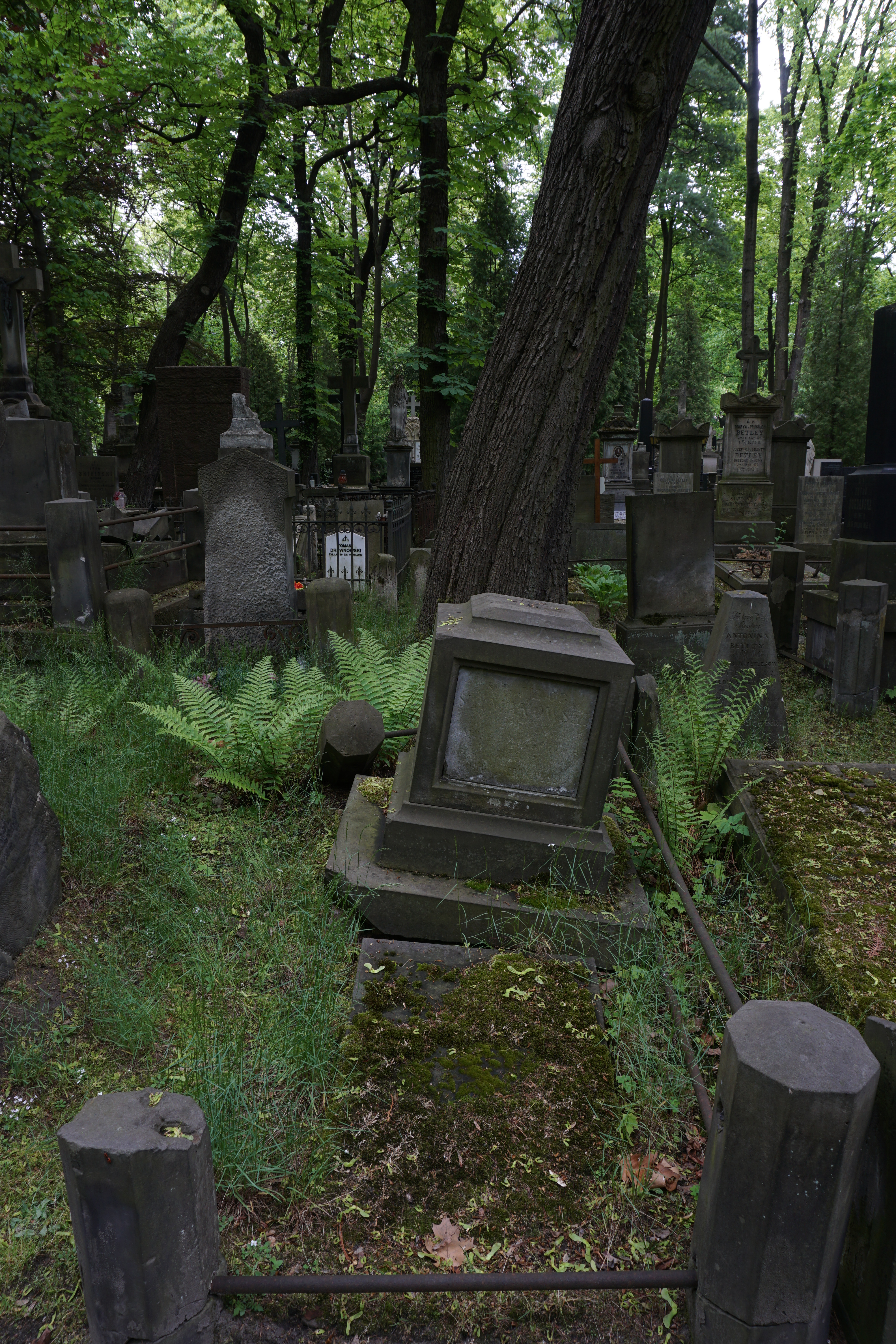 The grave of Paweł Maliński at the Powązki Cemetery (section 12, row 6, grave 17)